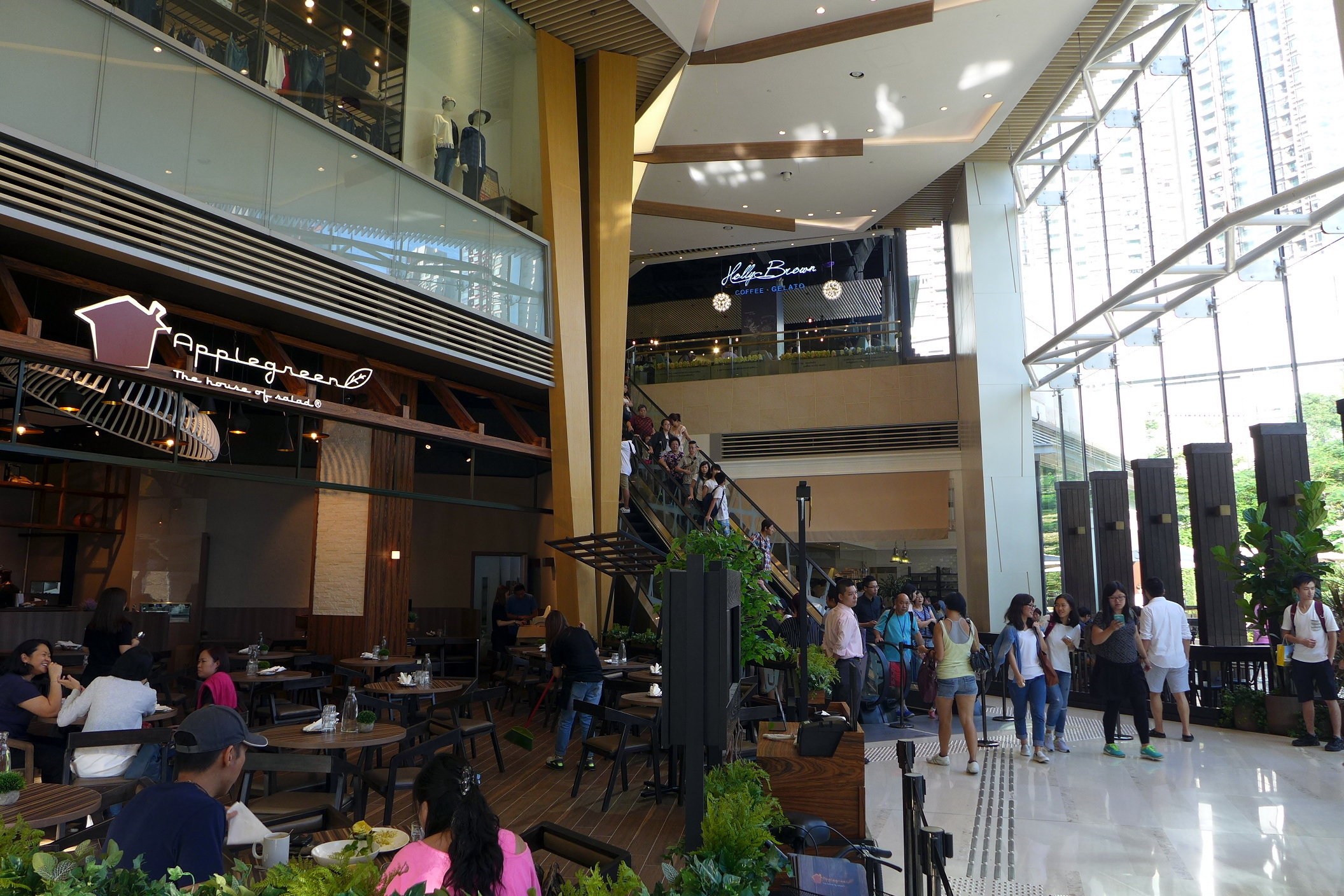 YOHO Mall Entrance Atrium